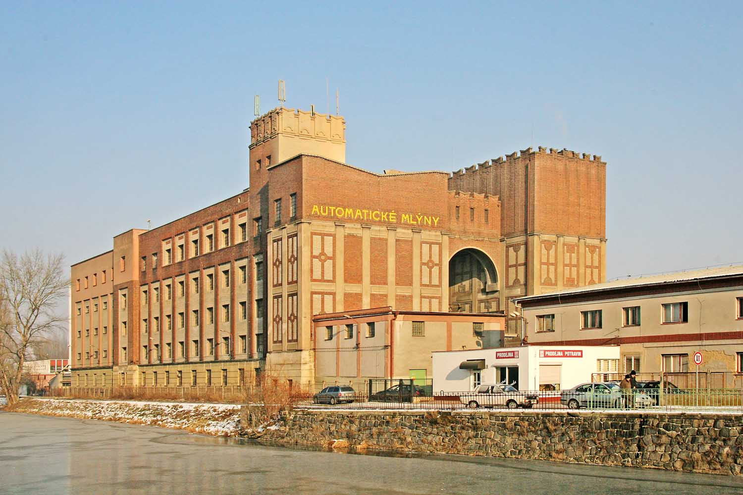 Josef Gočár: Winternitz Mills in Pardubice, 1911